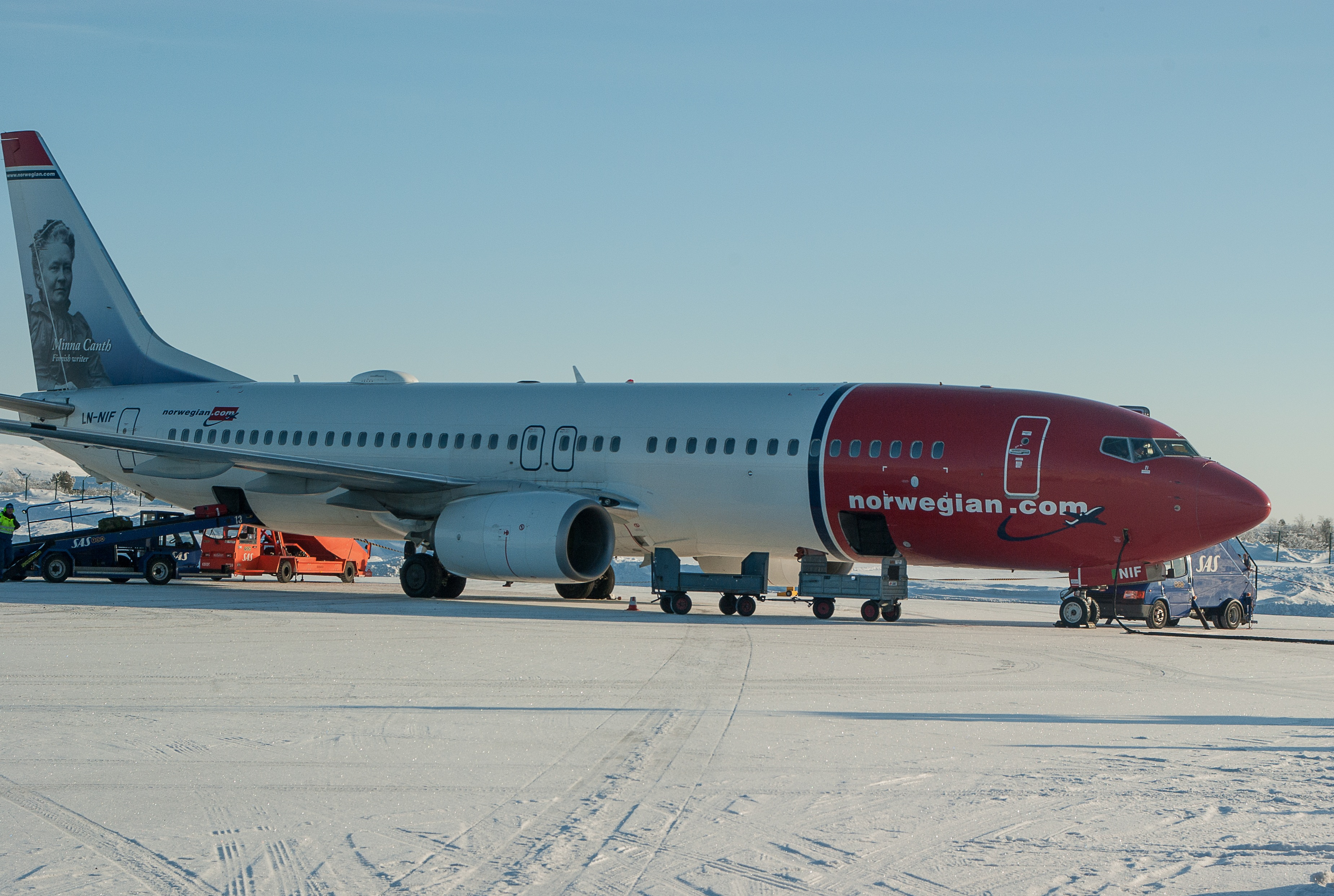 Norwegian in KKN (Kirkenes Airport)